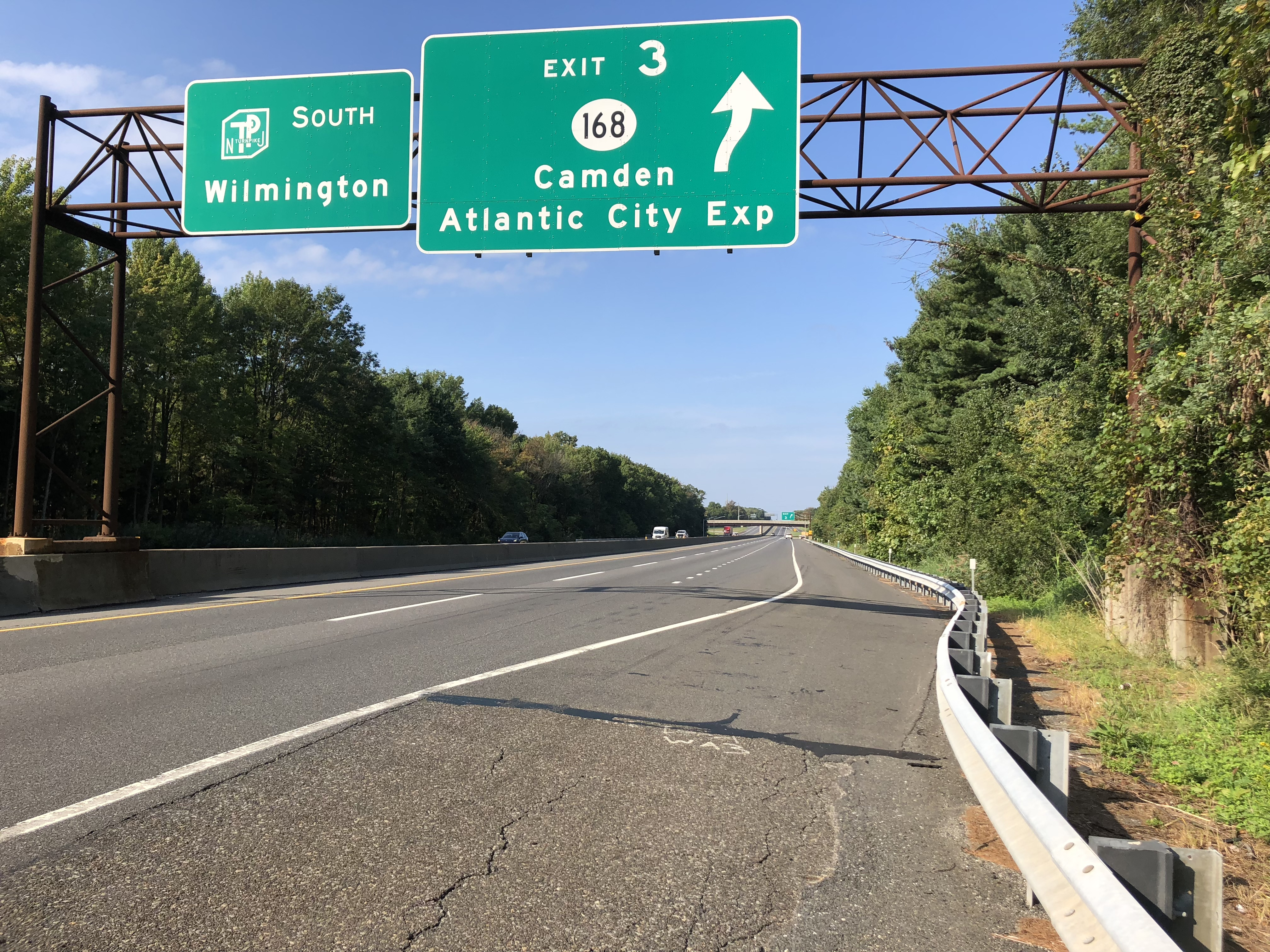 View south along New Jersey State Route 700 (New Jersey Turnpike) at Exit 3 (New Jersey State Route 168, Camden, Atlantic City Expressway) in Bellmawr, Camden County, New Jersey